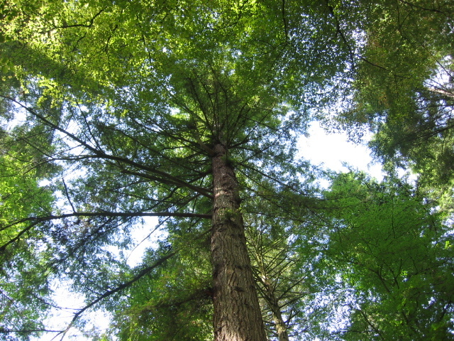 Photo taken by Dudesleeper.